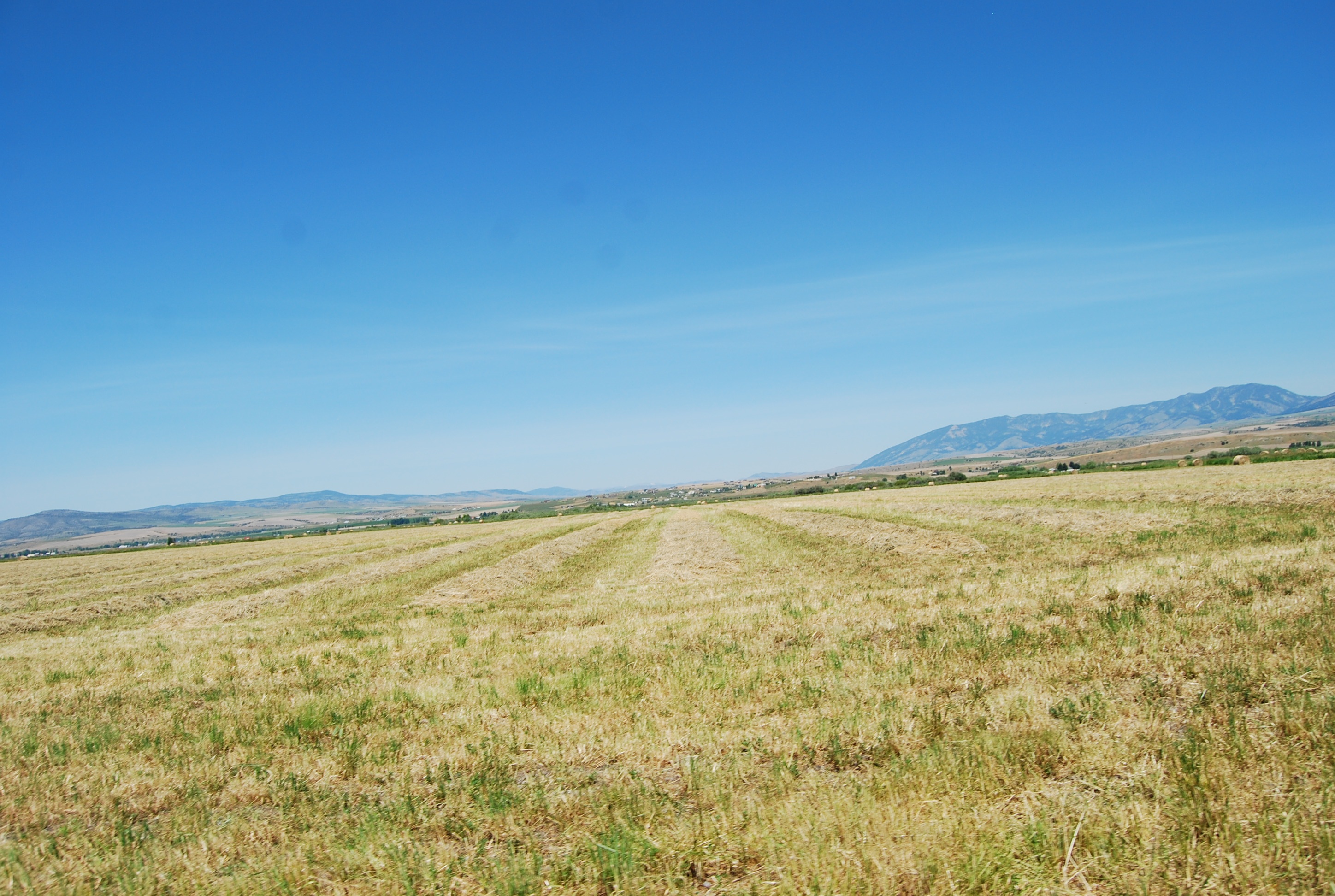 Wheat field in Montana.